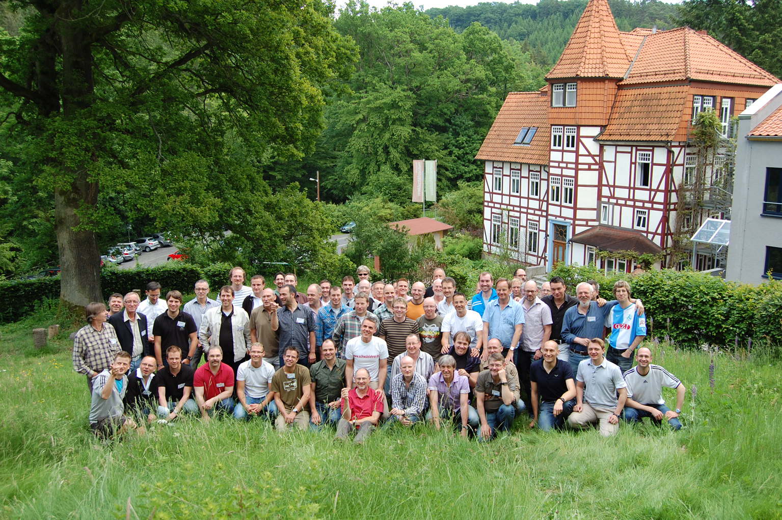 Waldschlösschen